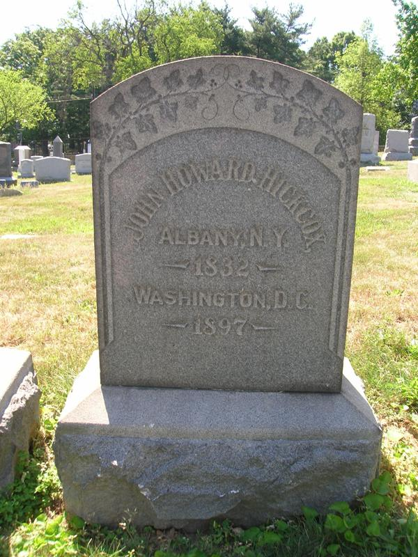 John Howard Hickcox, Sr. (1832-1897), a nineteenth century librarian and bookseller, is well known for his efforts to organize and index federal government publications